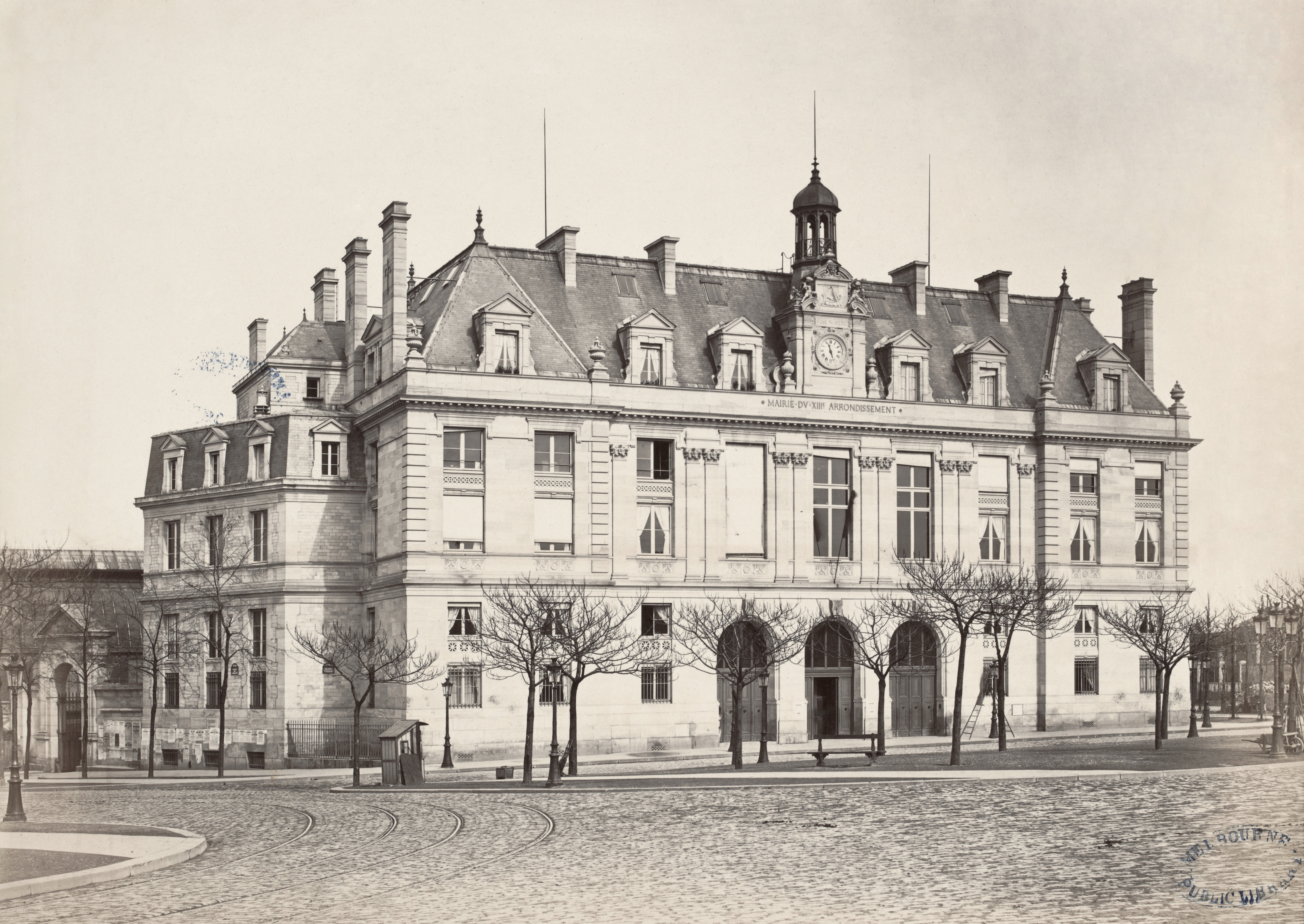 Looking towards facade of Town Hall of Paris XIIIe arrondissement, two storey building with tower and clock, three arched doorways in front, gabled roof with attic dormer windows; tram lines curving around street on left.